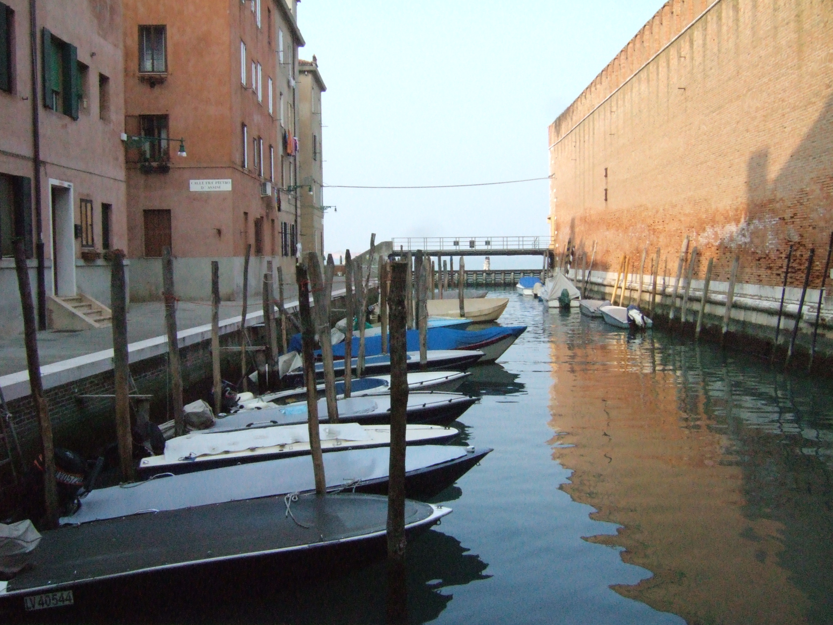 Rielo drio la Celestia (Venice)